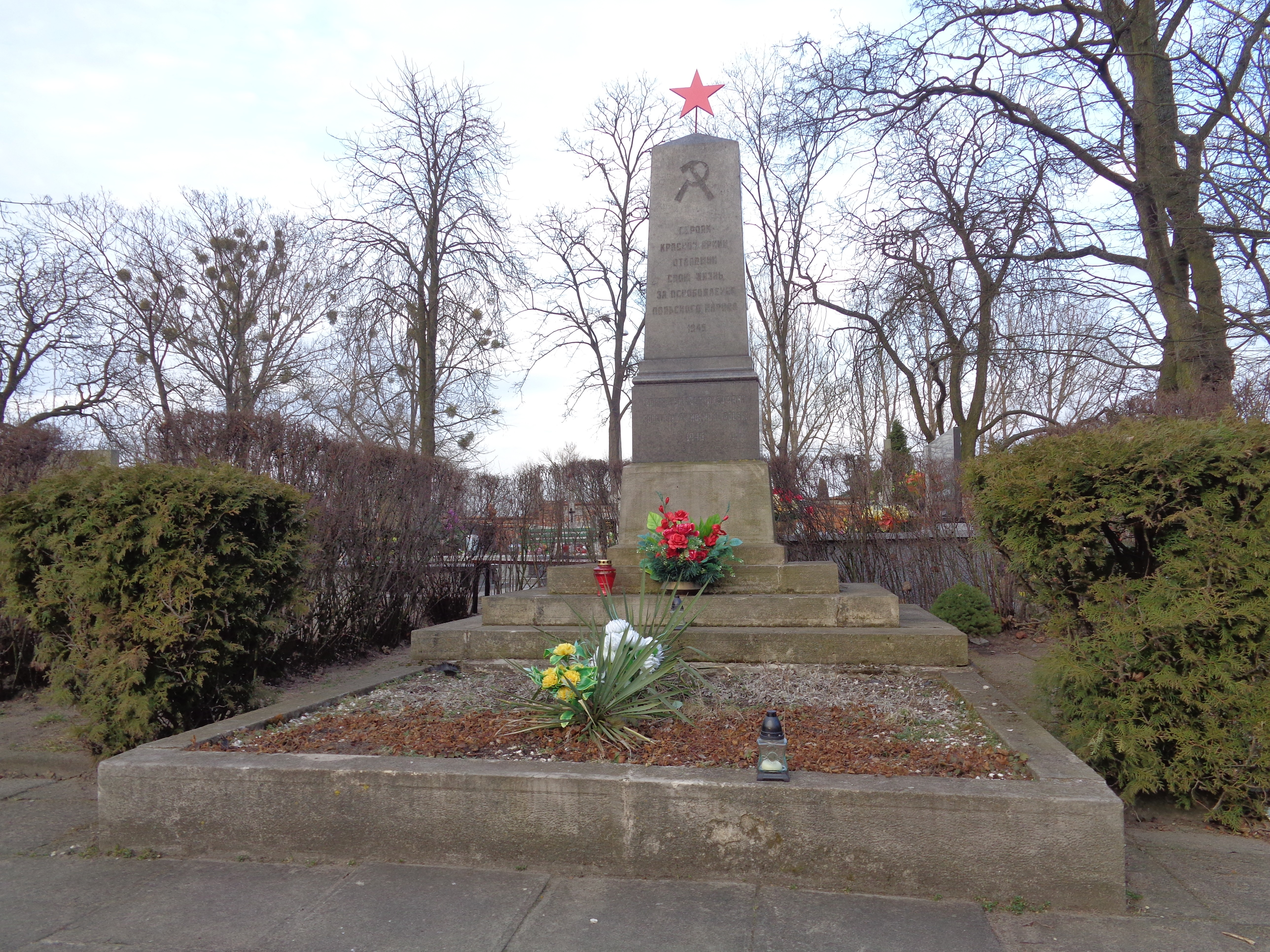 Monument on communal cemetery in Włocławek of soviet soliders who fought for independence of Poland during II World War. Red Star on photograph was reinstalled again in 2018 year after the few years of absention.